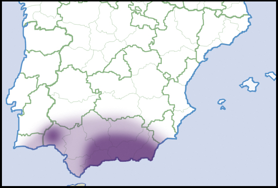 Pyramidula jaenensis (Clessin, 1882). Distribution in Europe, scientific state of knowledge of 2012. Source description in English. Light colour indicated rare occurrences or regions where the species could eventually be expected to occur. Dark colour indicated relatively reliable occurrences, as well as regions where the species was expected to occur, and where the species was not known to be extremely rare. Dark colour indications were not necessarily based on published records. Species summary in AnimalBase